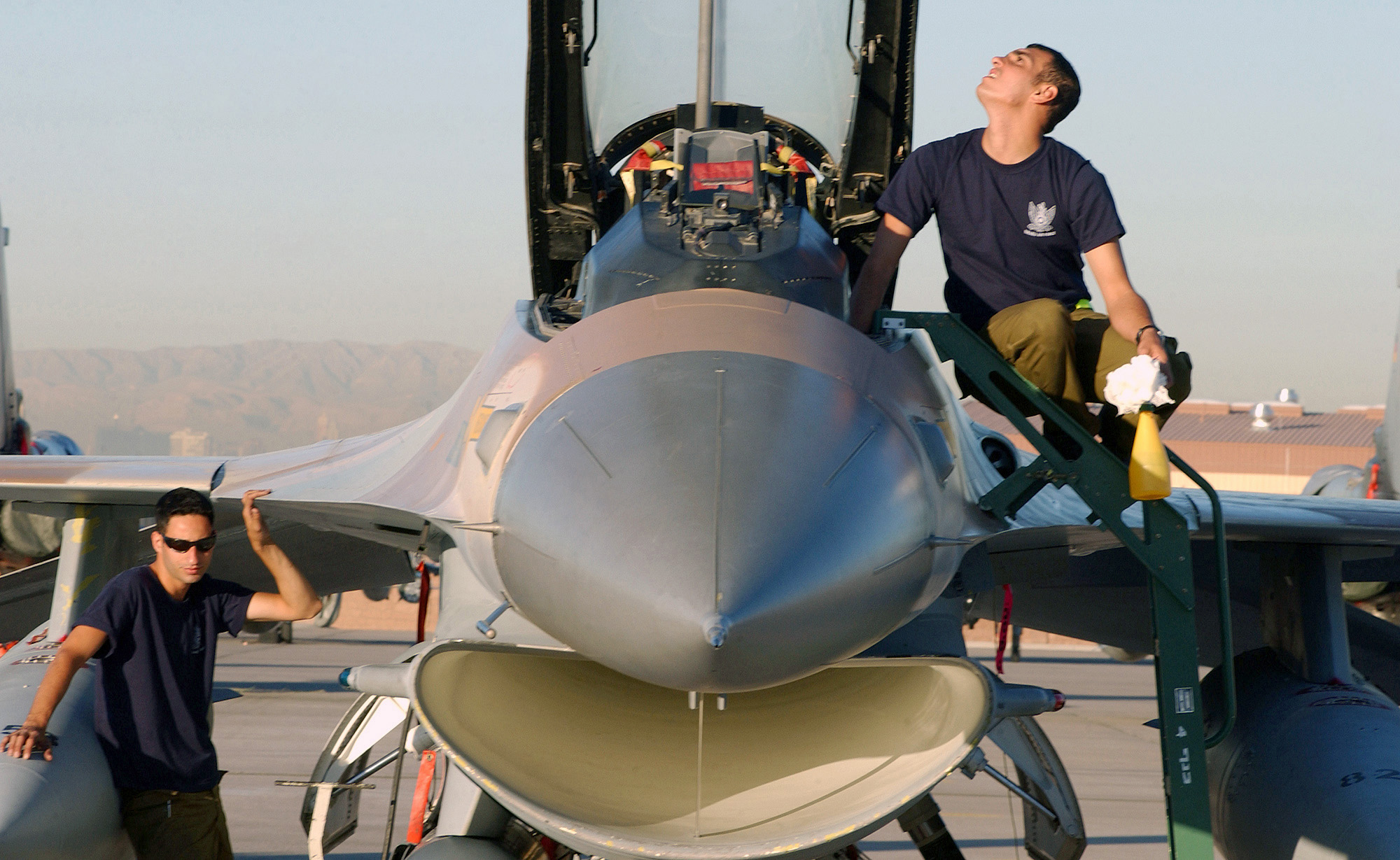 ISRAELI Air Force (IAF) F-16 Fighting Falcon aircraft Crew Chiefs, Master Sergeant (MSGT) Omar Terezzi (left) and IAF MSGT Koby Hazizia, conduct a preflight inspection of their aircraft during Exercise RED FLAG 2003, on the flight line at Nellis Air Force Base (AFB), Nevada (NV). Red Flag is currently the most realistic simulated air-warfare training exercise held anywhere in the world. It regularly involves the air forces of the United States and its allies. Location: NELLIS AFB, NEVADA (NV) UNITED STATES OF AMERICA (USA)